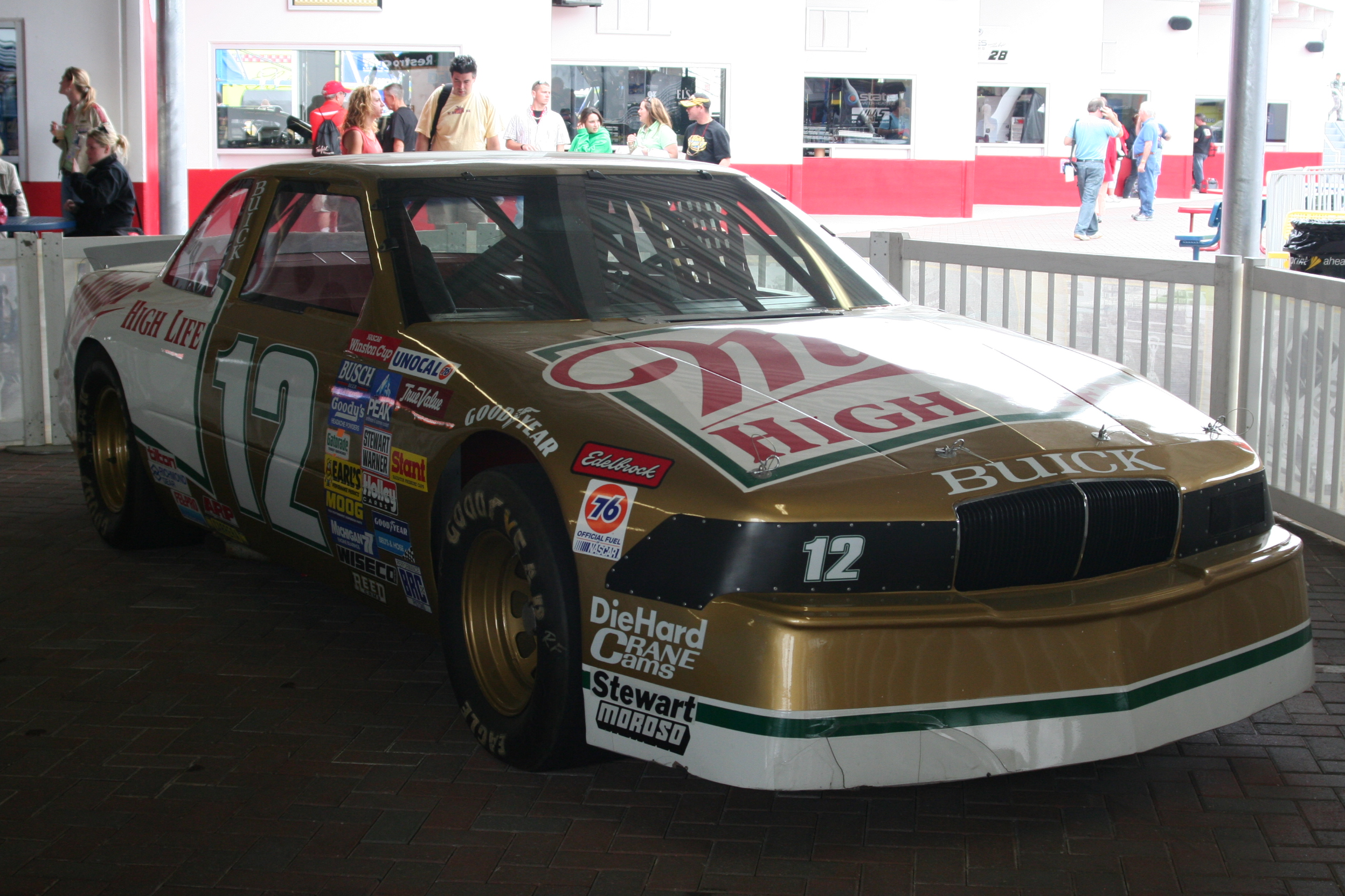 Shot by The Daredevil at Daytona during Speedweeks 2008. He ran the #12 car in 1988 only.